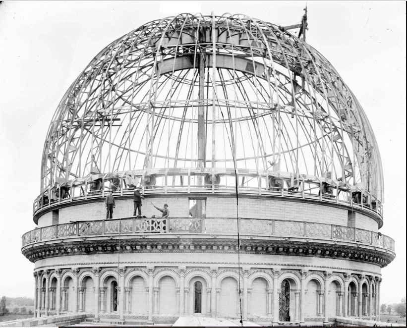 The main dome at Yerkes Observatory during its construction c.1896.